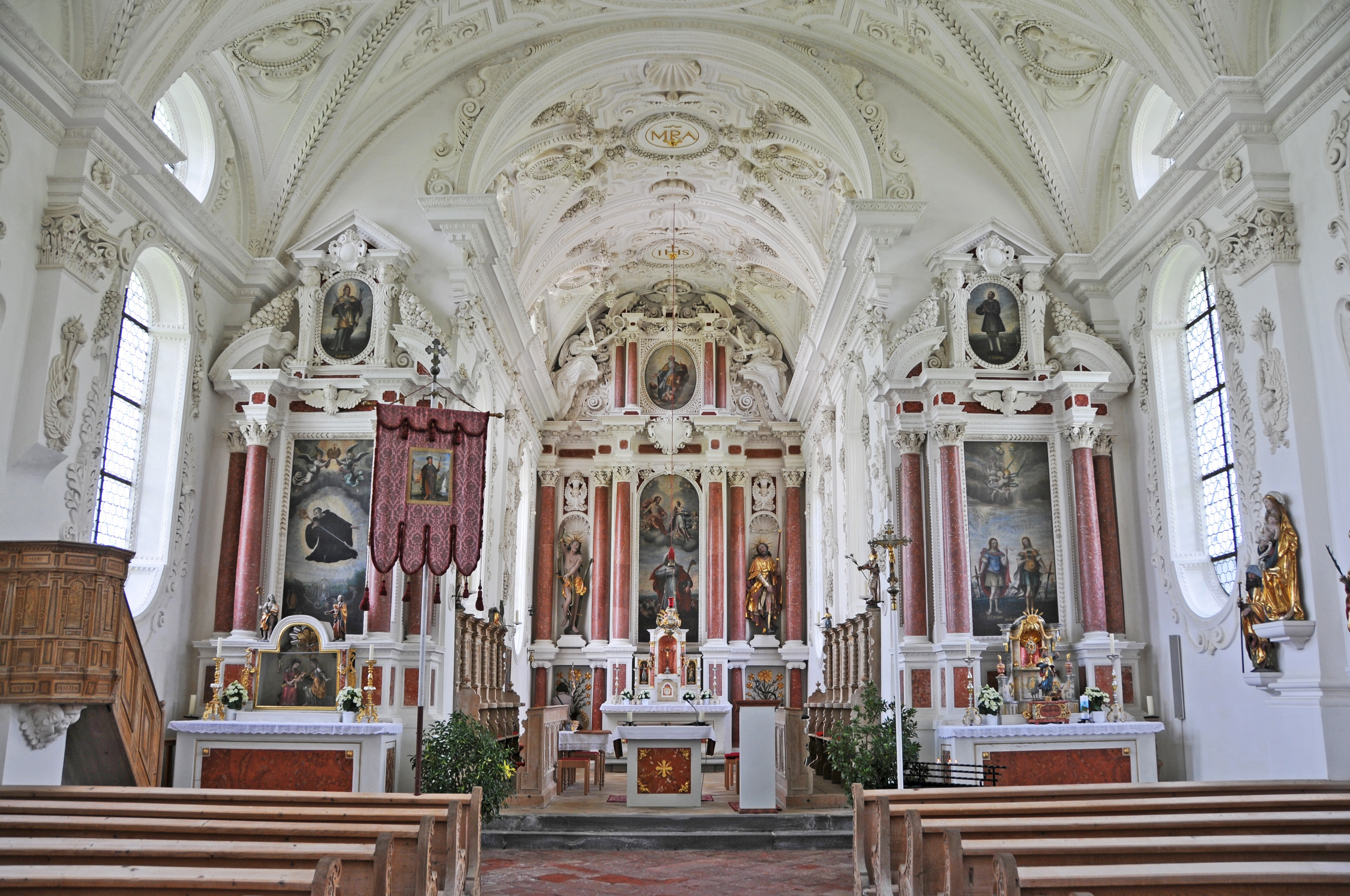 St. Coloman, Schwangau (Germany), interior